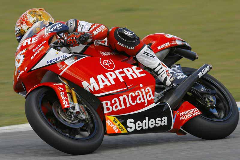 Hector Faubel in IRTA Jerez Test 2008